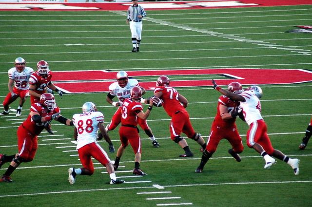 Jordan Wynn sets to throw a touchdown